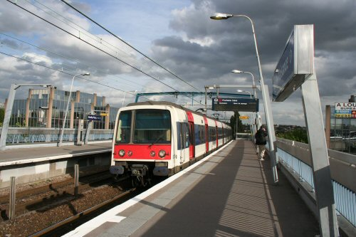 RER Station of Neuilly-Plaisance (France) photo token by M.GASMI.